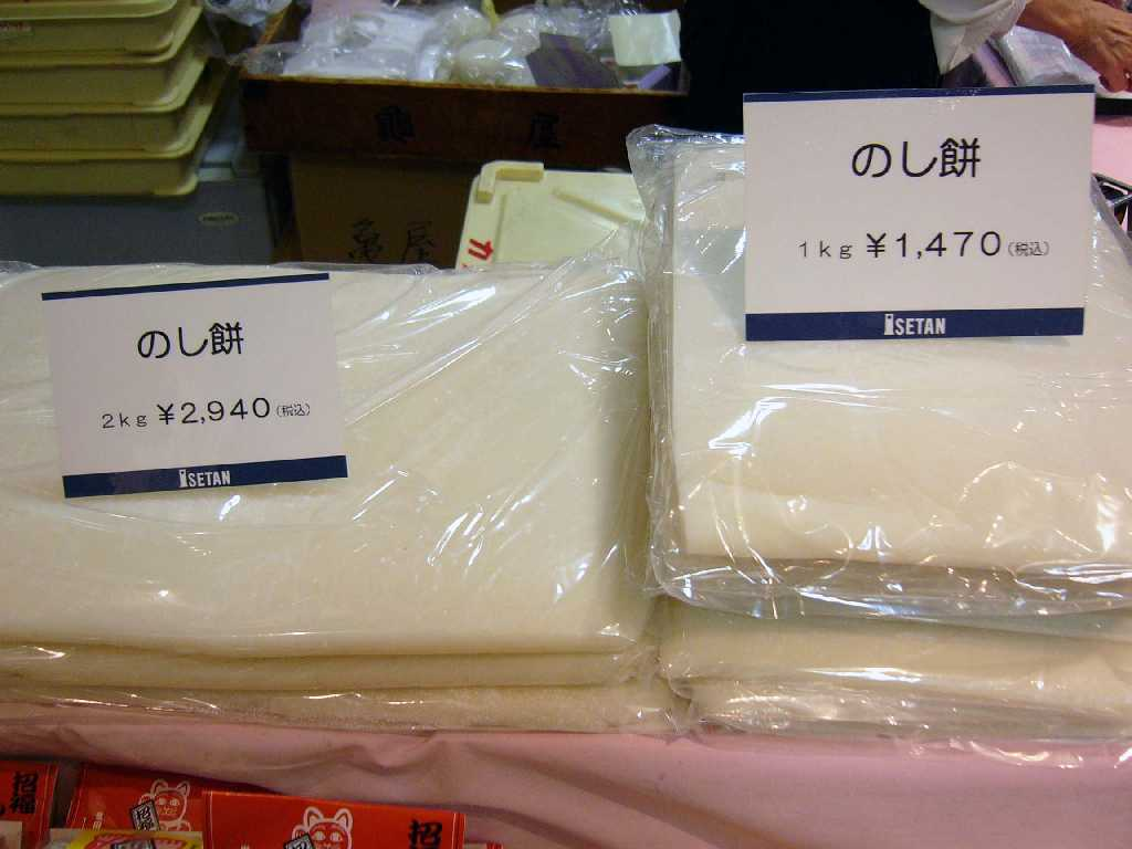 Mochi (Japanese: 餅)Japanese rice cake